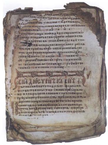 fragment of Bitola triodion, a macedonian manuscript from 12 century